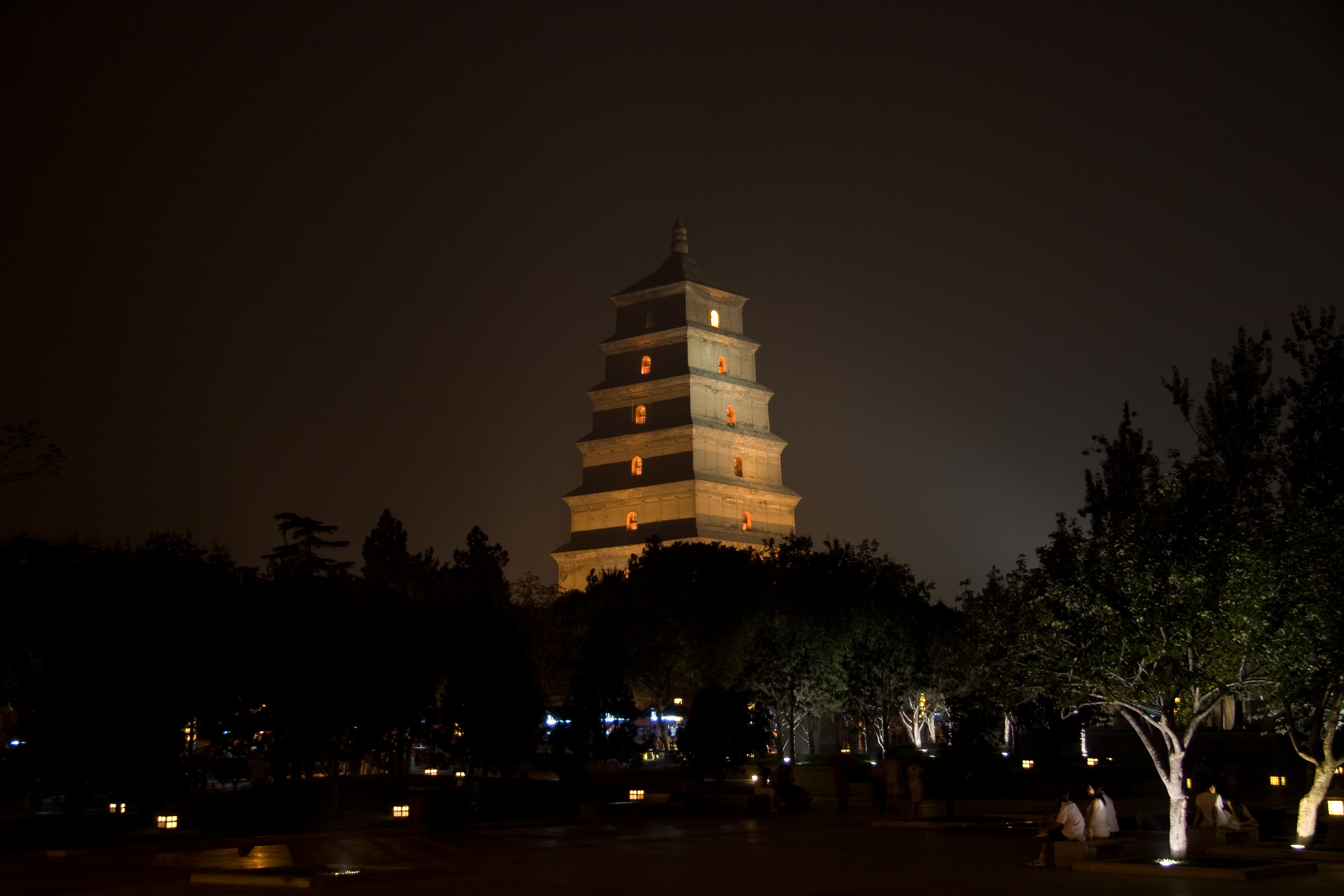 Giant Wild Goose Pagoda in Xi'an, China